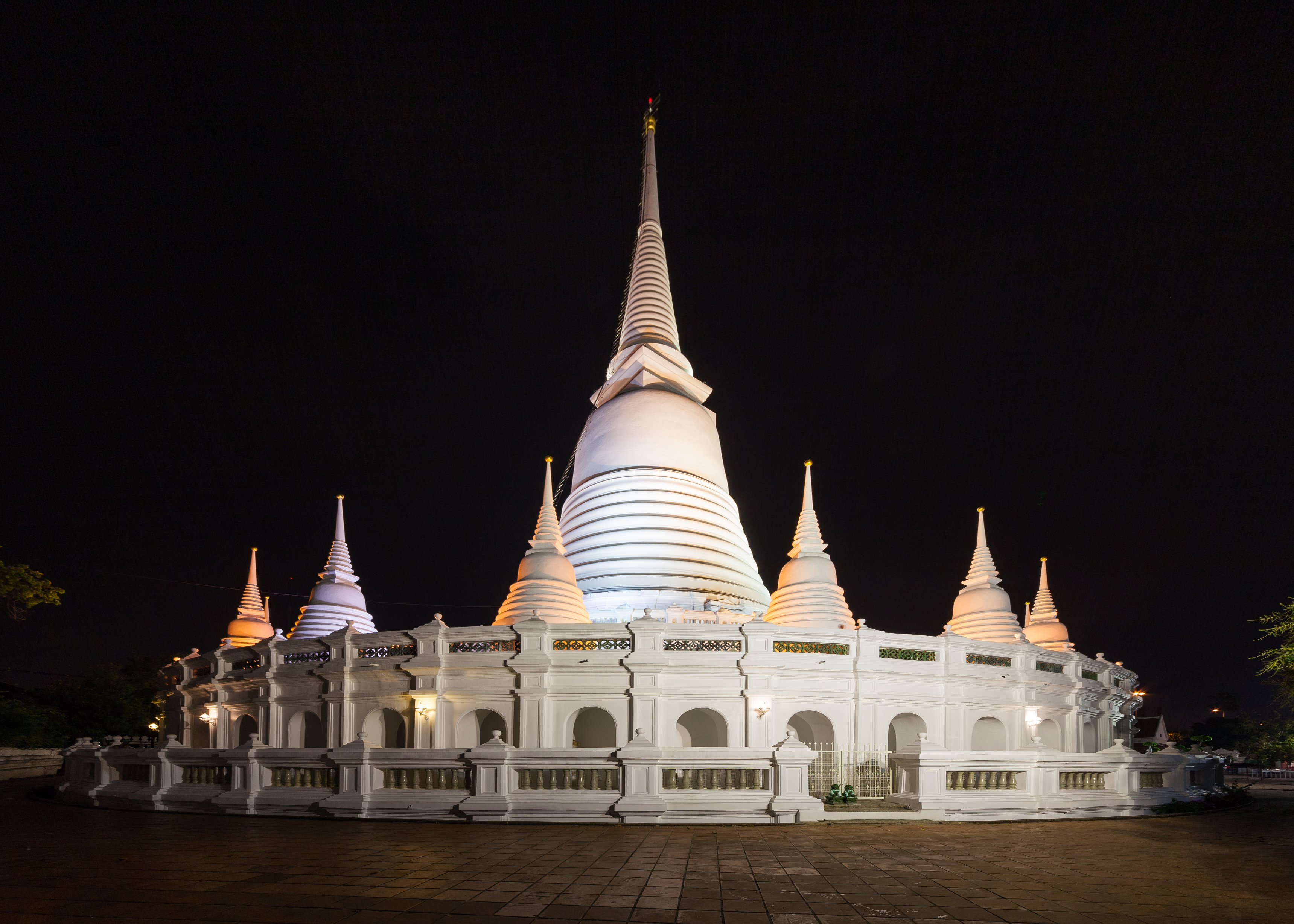 Chedi of Wat Prayurawongsawat at Wat Prayurawongsawat, Thonburi District, Bangkok.